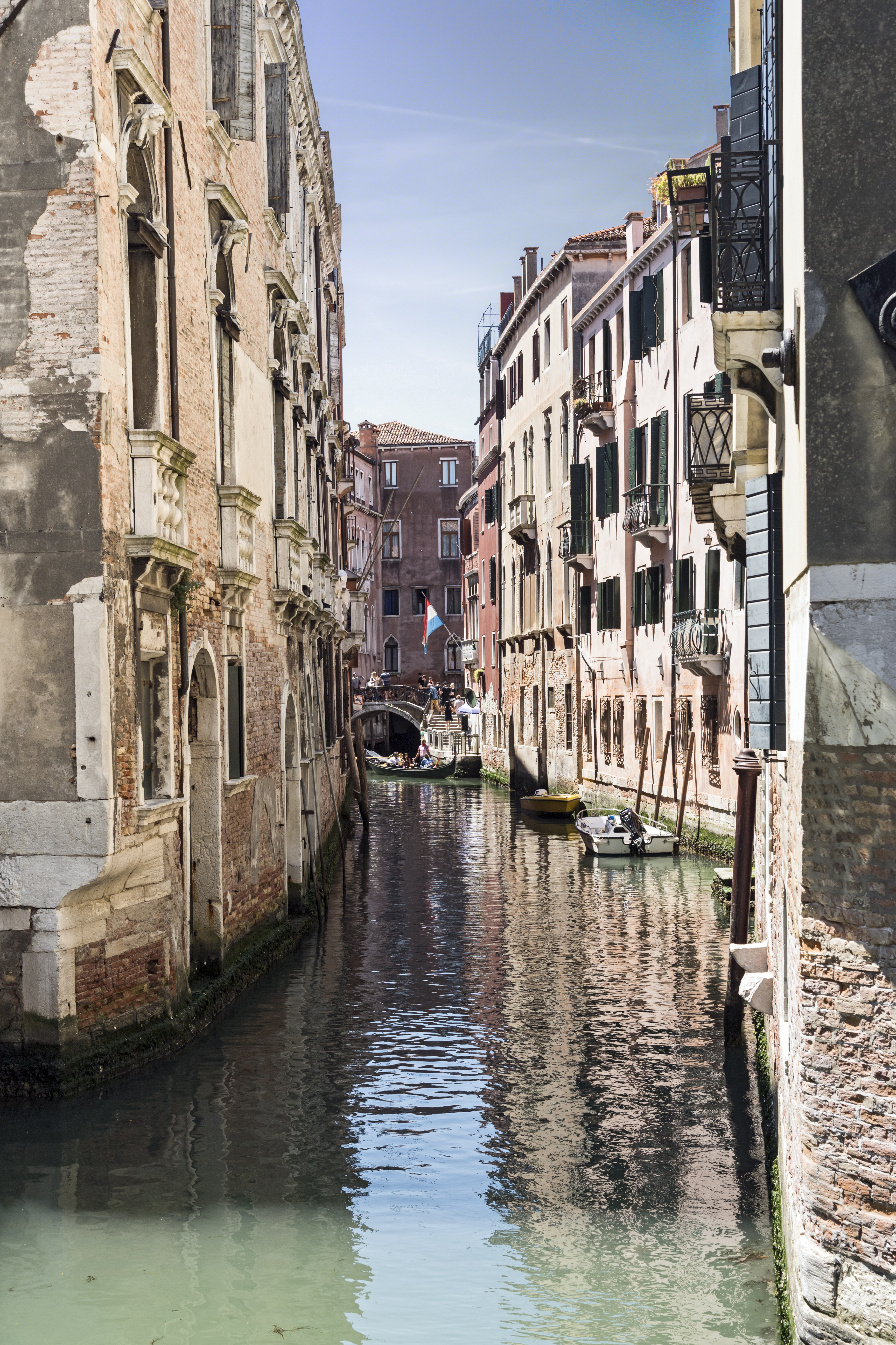 Rio del Mondo Novo viewed on the Ponte Avogadro, to the southwest in Venice.